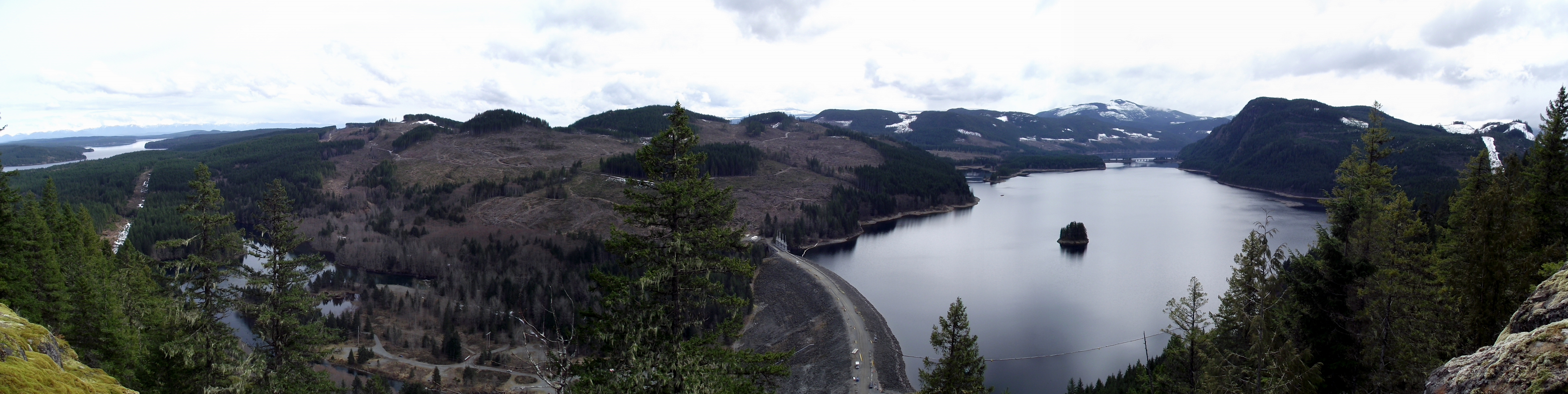 Campbell Lake and Dam Pano